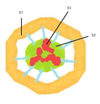 Pyruvate Dehydrogenase Complex